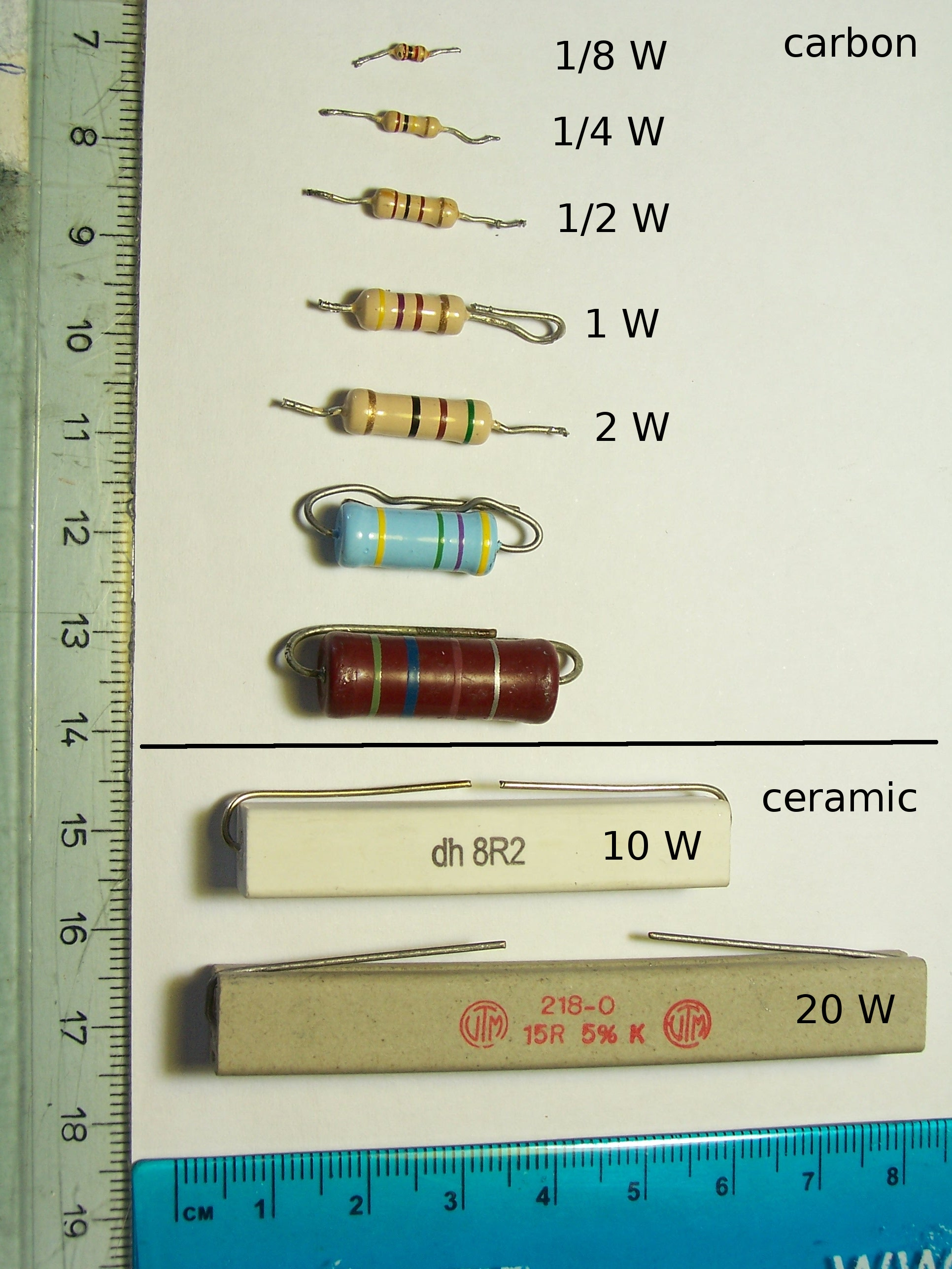 This photo shows carbon and ceramic resistors of different power ratings alongside a scale. You can use it to get a rough estimate of your resistors' power dissipation. The scale smallest division is millimetres (mm) and the largest (numbered) is centimetres (cm).